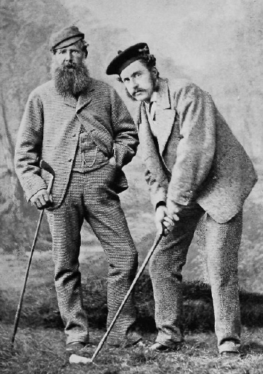 Old Tom Morris, Young Tom Morris, around 1870-1875